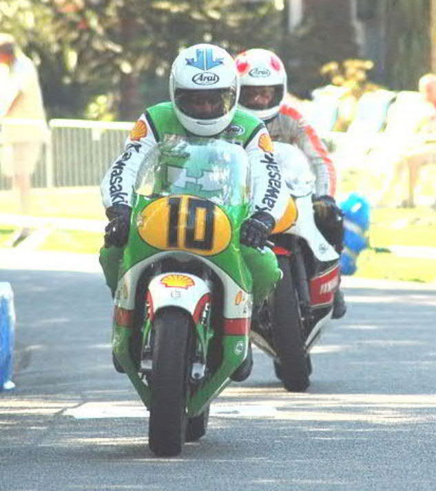 Mick Grant on a Kawasaki carrying his usual number 10 at a European demonstration event in 2009